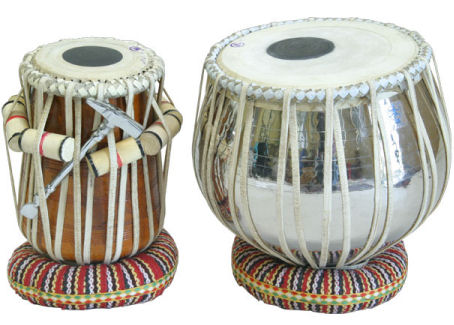 TABLA SET PROFESSIONAL AT